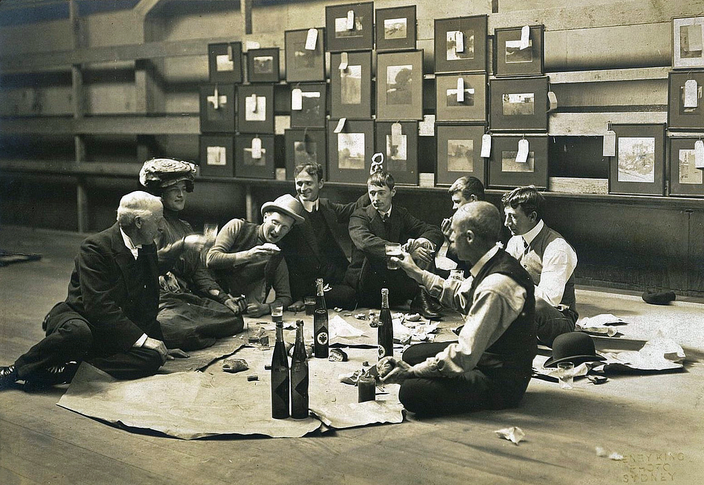 "Society of Artists' Selection Committee, 1907 - group of artists including Norman Lindsay & Syd Ure Smith (?) According to Moore's Story of Australian Art, vol. 1 opp. p. 171, the artists in this group are (l to r) Julian Ashton, Mrs Norman Lindsay, Harry Weston, Will Dyson, Norman Lindsay, young Souter, Sydney [sic] Long & D.H. Souter" — in pencil on the reverse. Original at the State Library on NSW.